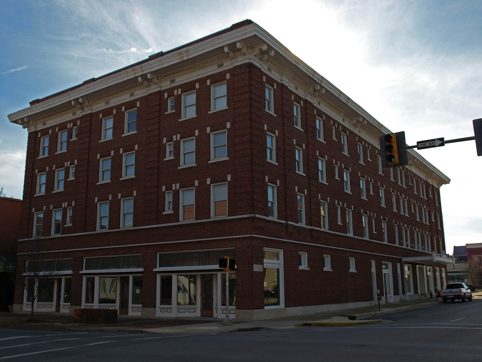 The Yarbrough Hotel in Huntsville, Alabama, listed on the National Register of Historic Places.